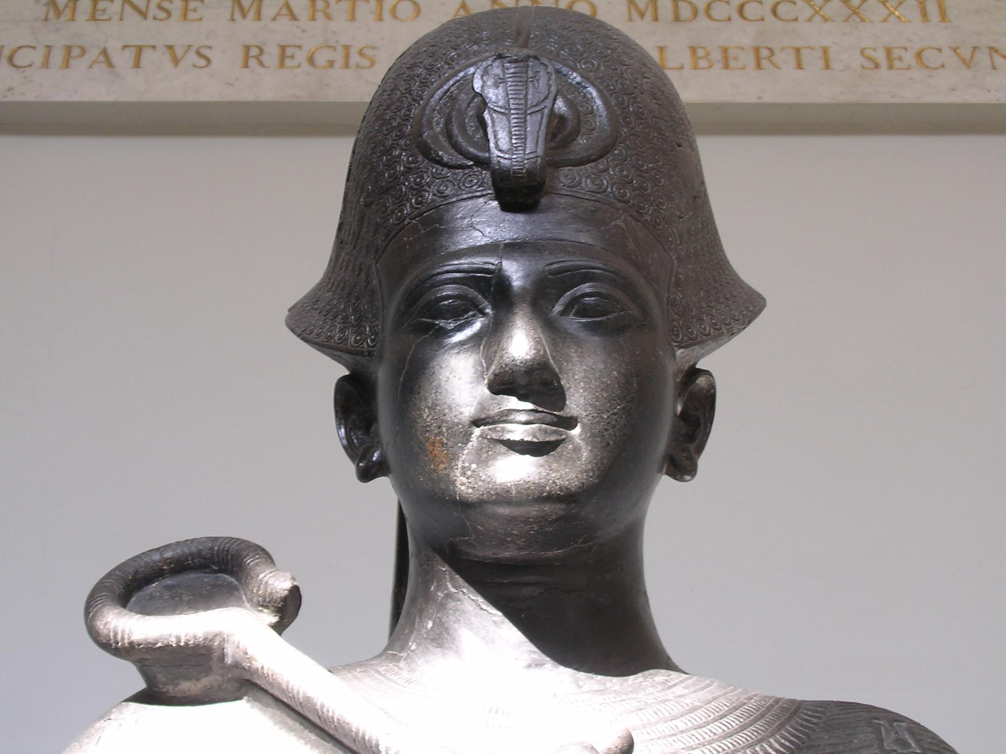 Pharaoh Ramesses II. Statue in the Torino Museum. museoegizio.it N. Inv. C. 1380